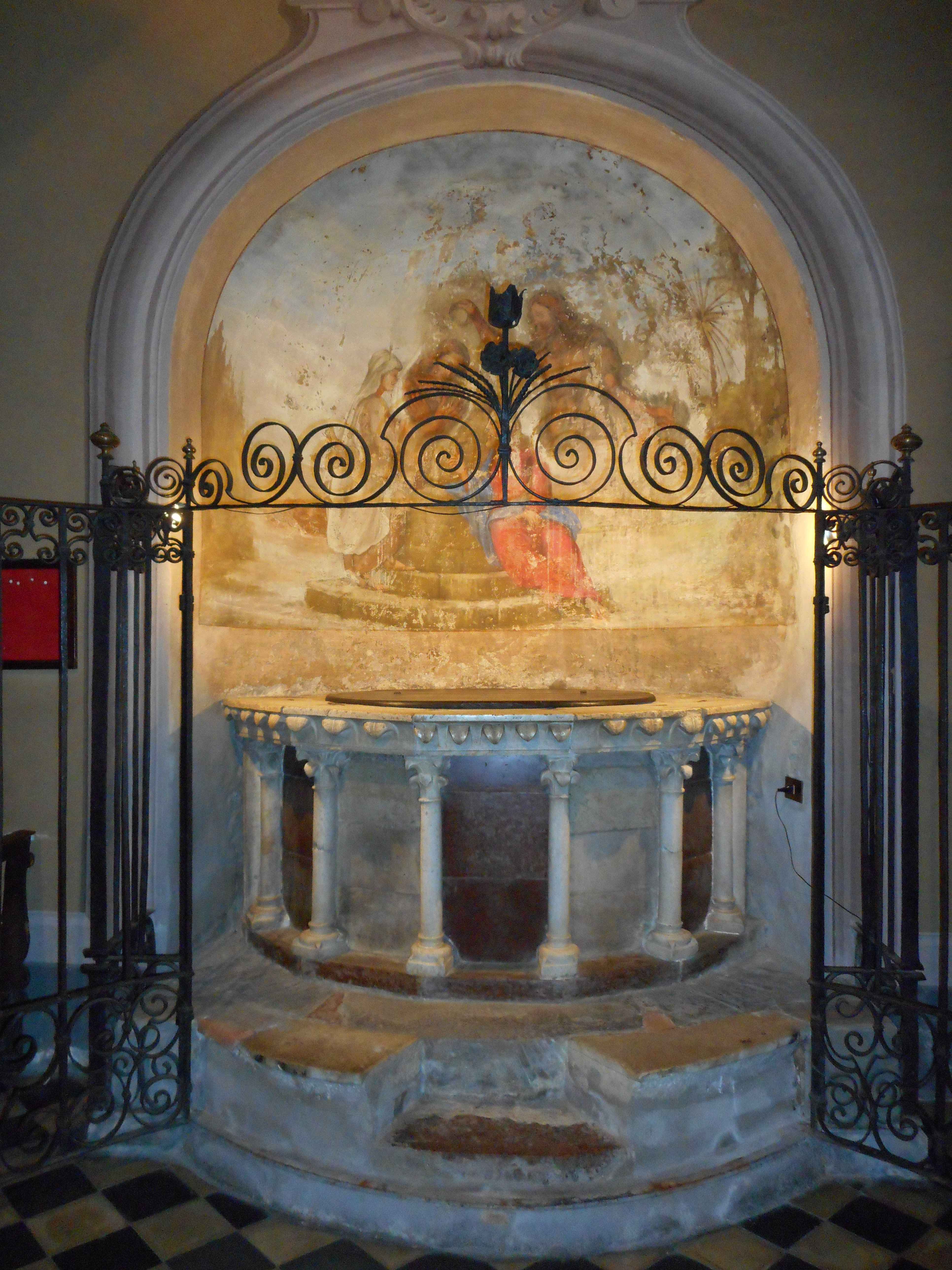 Fonte Battesimale per immersione - Pieve Foscian (LU)